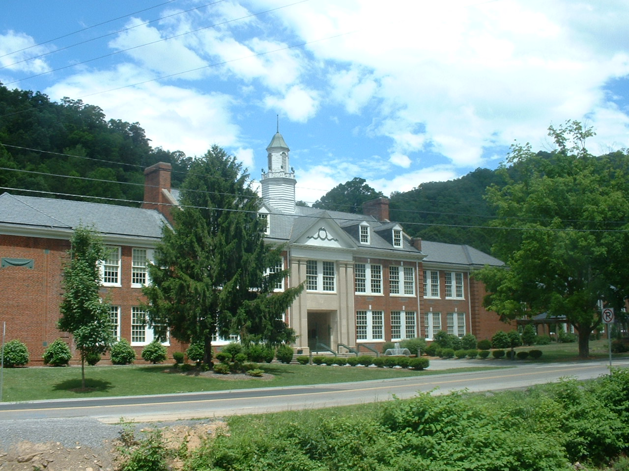 Photo of the Appalachian School of Law in Grundy, Virginia Formerly the grundy jr, high school